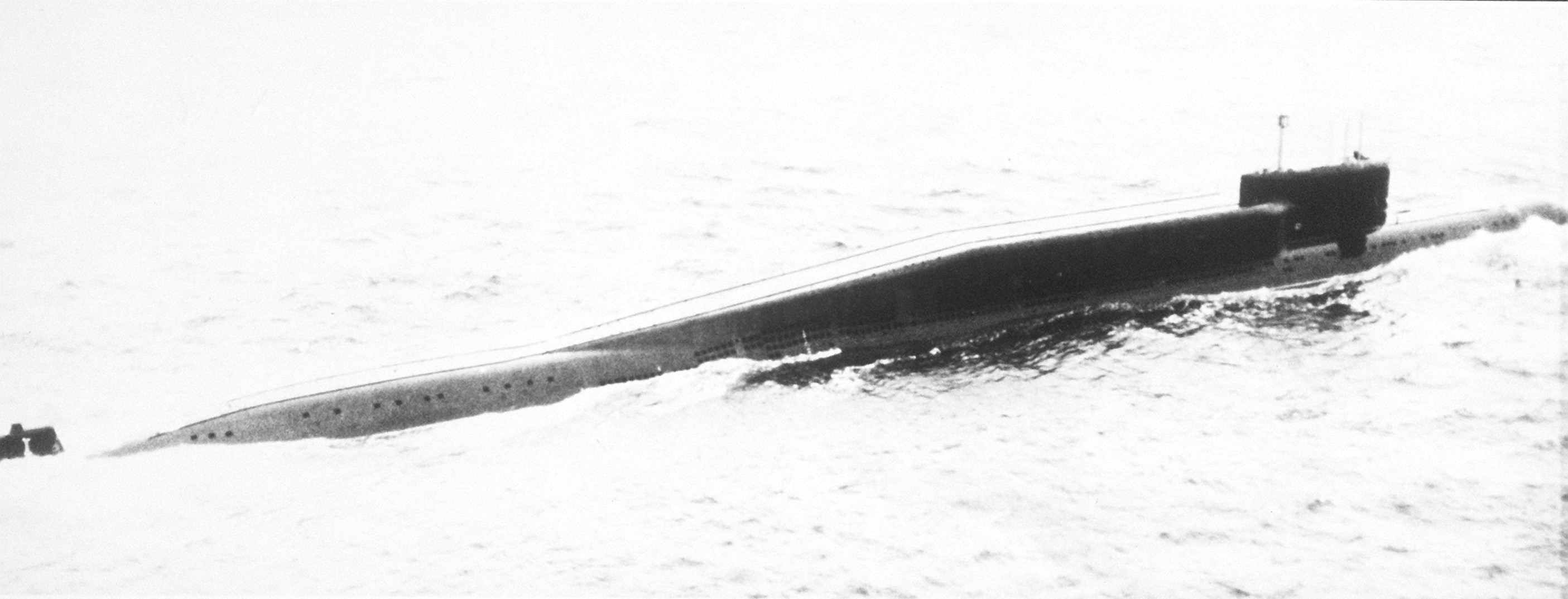 Starboard quarter view of a Soviet Delta III class strategic missile submarine. (Soviet Military Power, 1983, Page 16). Date Shot: 1 Apr 1983